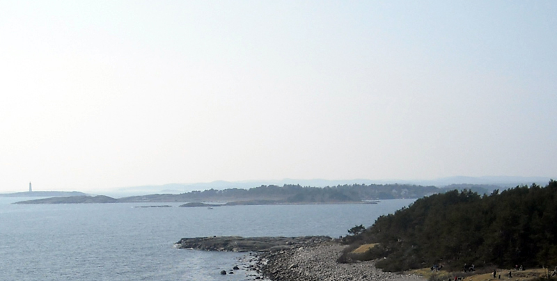 Merdø island in Arendal, Norway, picture taken towards west